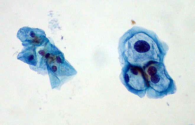 HPV/LSIL On Pap Smear ThinPrep liquid-based Pap. Normal squamous cells on left; HPV-infected cells with mild dysplasia (LSIL) on right. See also File:Low-Grade SIL with HPV Effect.jpg - Another example of LSIL with HPV changes. File:High-Grade SIL.jpg - High-grade squamous intraepithelial lesion (HSIL).